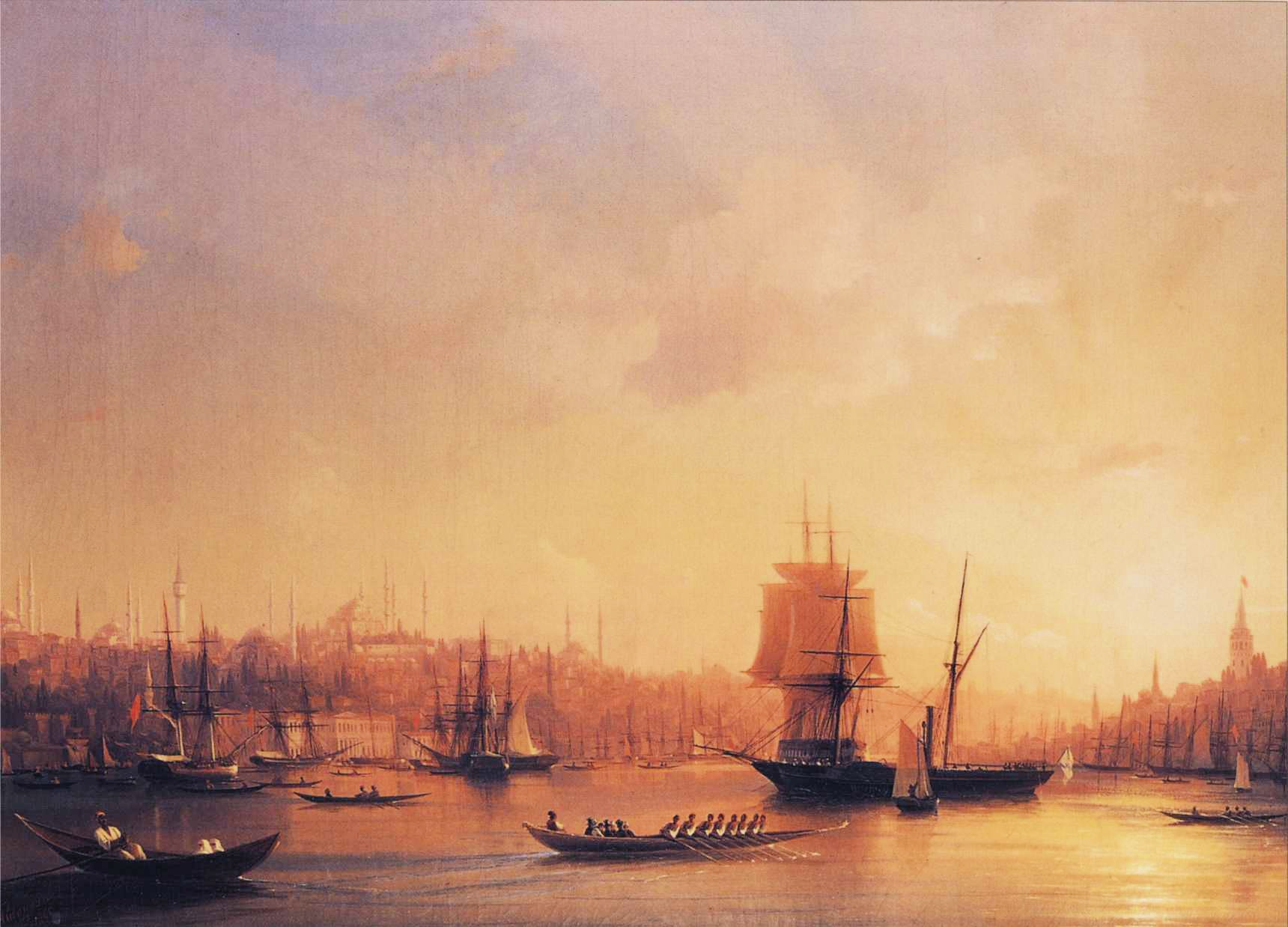 Material and Dimensions: Oil on canvas, 56 x 81.3 cm